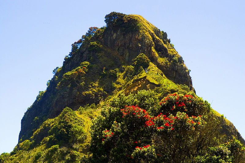 Lion Rock at Piha, Waitakere Ranges (10 January 2005.) Pōhutukawa trees (Metrosideros excelsa) in flower. Photograph by James Shook, who retains copyright and releases the image under the license shown below.